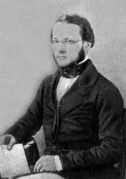 UNSPECIFIED - DECEMBER 19: Louis Pasteur (1822-1895) french chemist and biologist, he found vaccin against rabies in1885, here in 1852 (Photo by Apic/Getty Images)